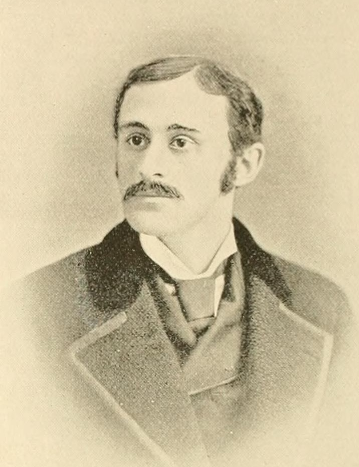 John Eliakim Weeks, Vermont Governor and Congressman